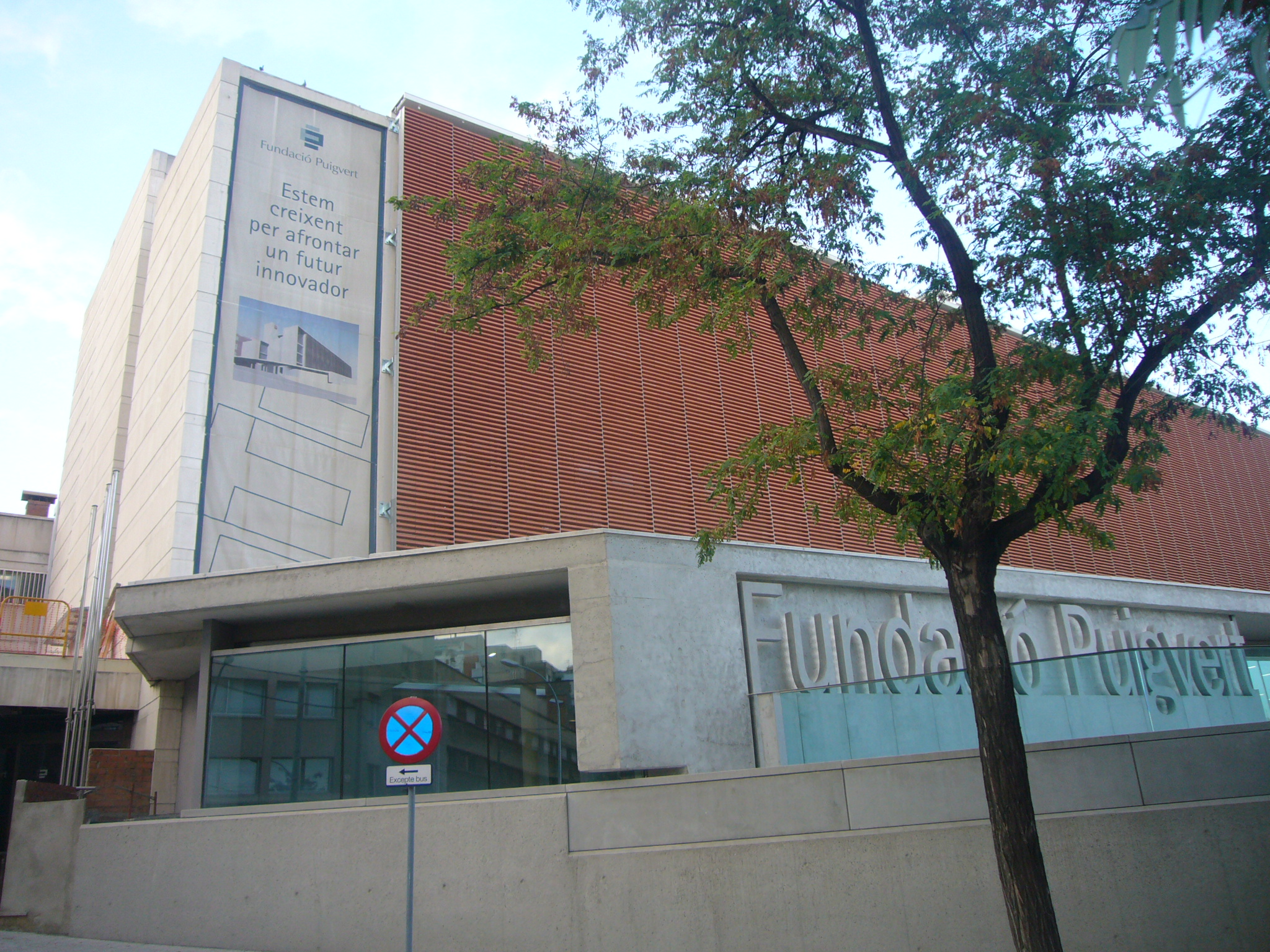 Fundació Puigvert, hospital specialized in urology, at Cartagena street, Barcelona